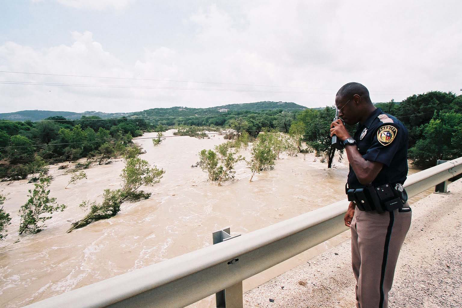 San Antonio, TX, July 4, 2002 -- Deputy Ebony Jones is concerned with the rising waters of Cibolo Creek after over 30 inches of rain fell in less than a week. Photo by Bob McMillan/ FEMA News Photo